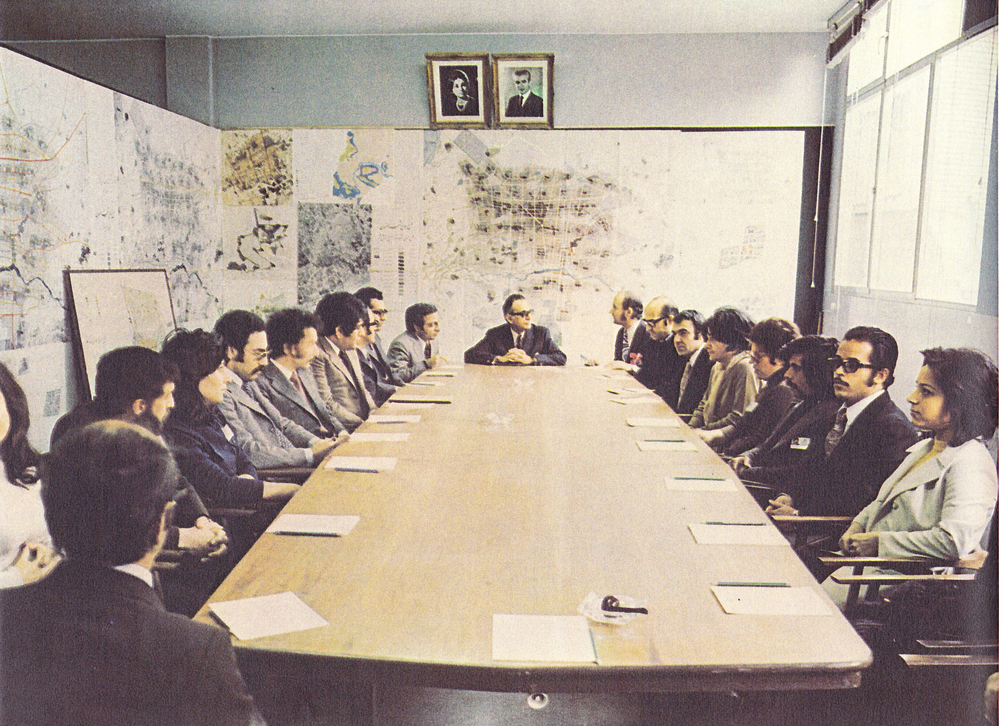 Urban planning committee, Shoraye Aali Shahrsazi, Iran